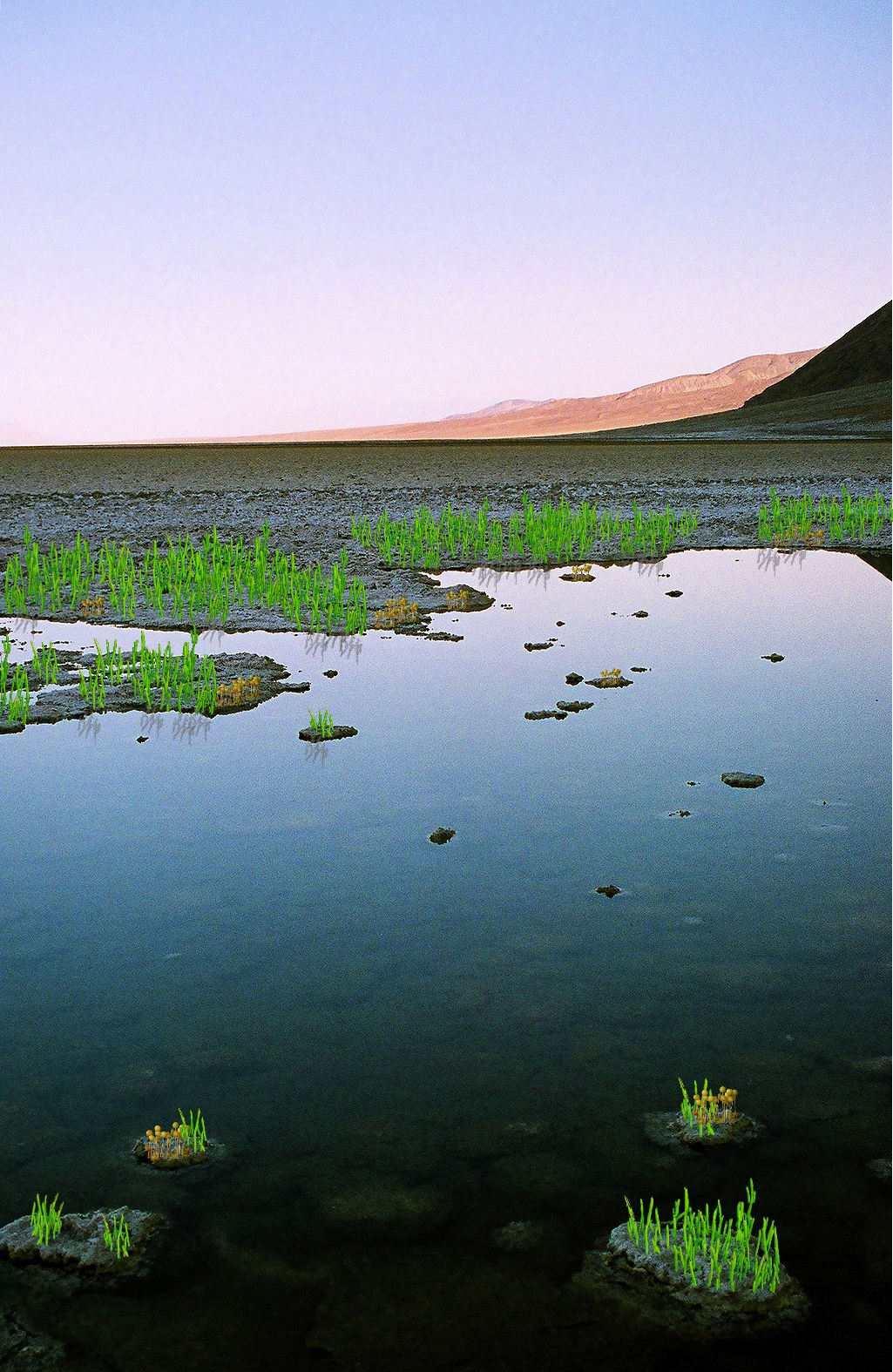 Modification of Wikimedia Commons Photo of Death Valley's Badwater Basin by Tahoenathan.